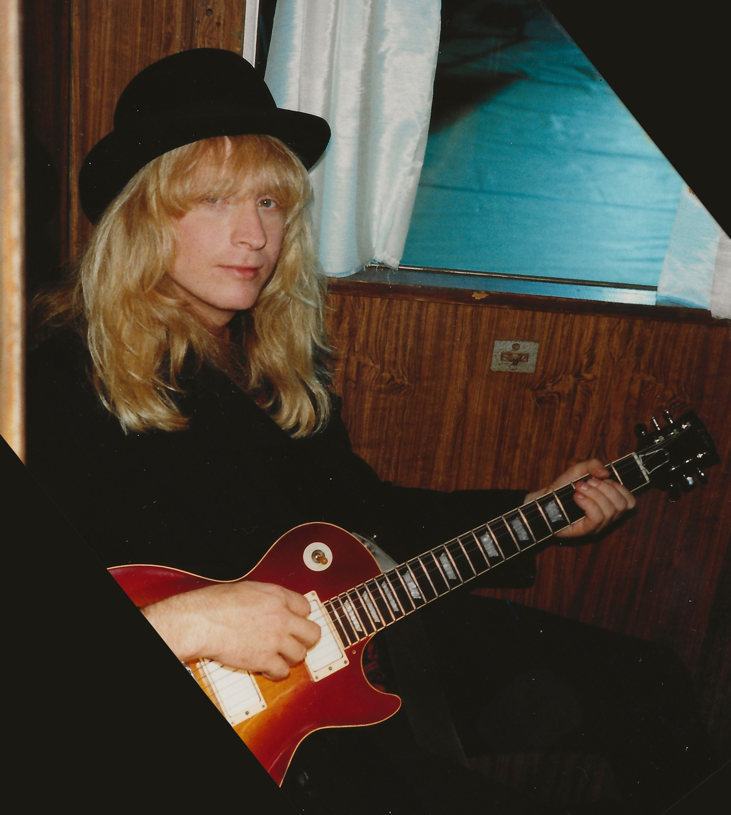 Buren Fowler during Drivin N Cryin's 1991 video shoot for Fly Me Courageous